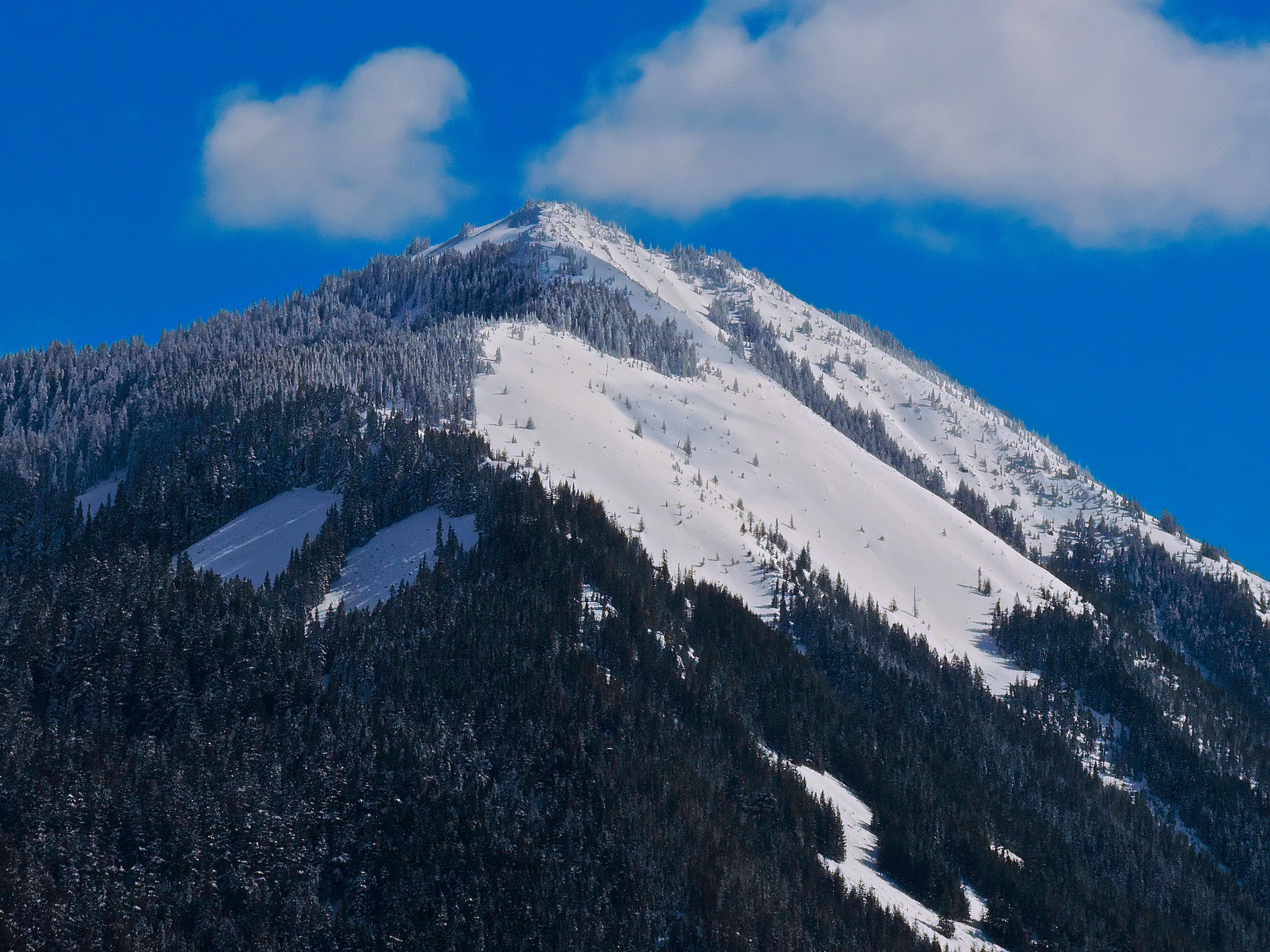 Bandera Mountain winter scene